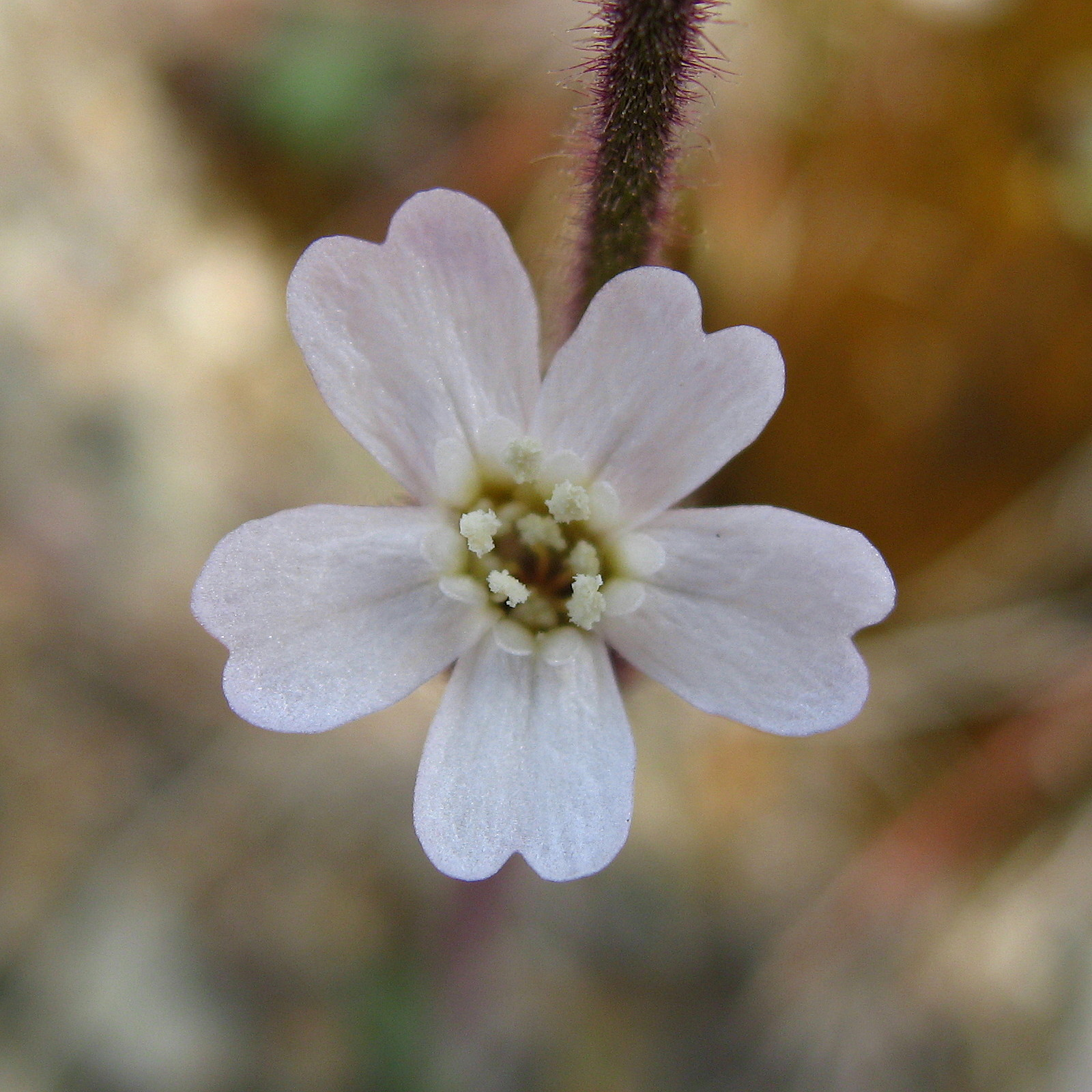 Sorensen's catchfly (Silene sorensenis) photographed on top of a coastal cliff next to the hospital in Upernavik, Greenland.